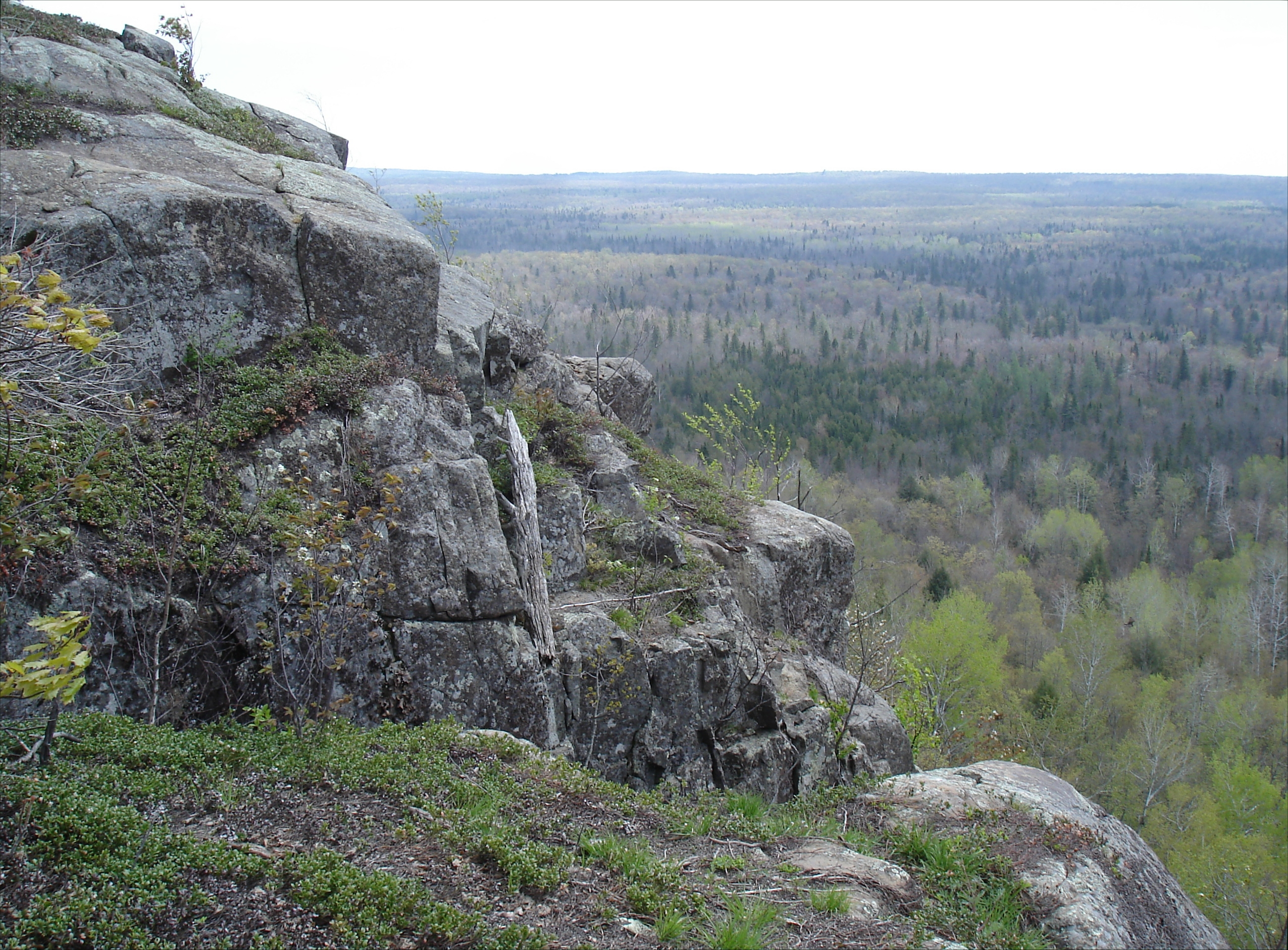 Penokee Bluff Rock bluff in the Penokee Range. Iron County Forest. May 25, 2008.